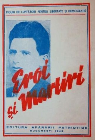 Biographies of Romanian anti-fascists and resistance fighters of the Second World War, published in Bucharest in 1945. Detailed bibliographical information: Heroes and Martyrs of the struggle for the good condition of the Romanian people, militants for freedom and democracy; Eroi şi martiri ai luptei pentru bună starea poporului român, Figuri de luptâtori pentru libertate şi demokraţie; Patriotic Defense Publishing House, Editura Apărării Patriotice, Bucharest 1945. Contains biography of Filimon Sârbo, worker, communist, anti-fascist (1916-1941). cover picture.